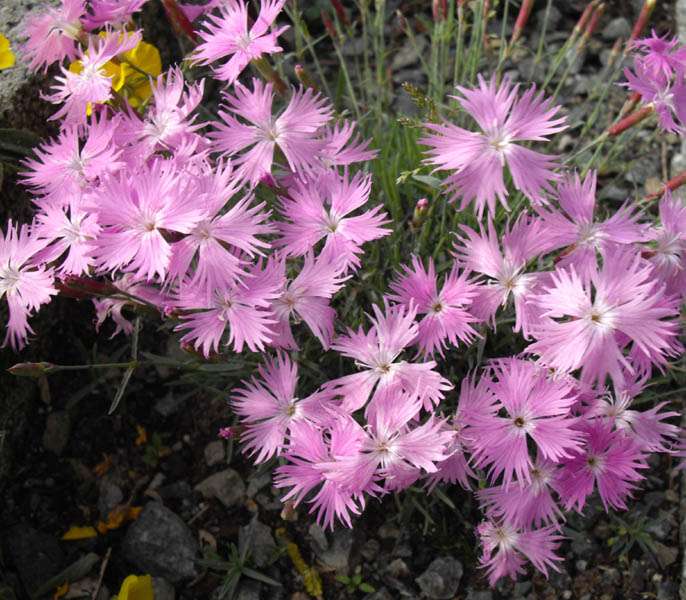 Dianthus monspessulanus subsp. sternbergii